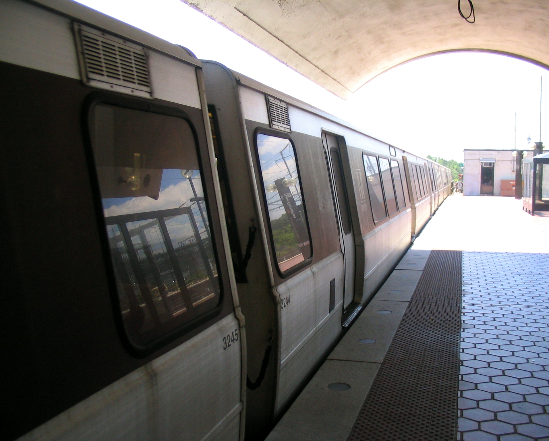 Breda 3244-3245 Metro 2000 and 3000 at the New Carrollton station of the Washington Metro subway system